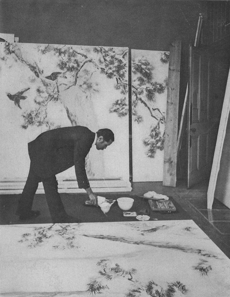 Photograph of Ishibashi Kazunori in his studio, working on one of the winter panels for the medical students' dining-hall, The London Hospital, London